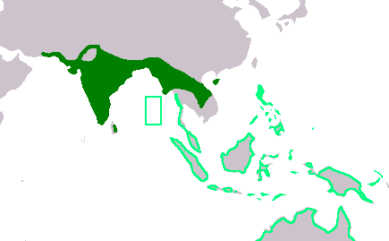 Range of Esacus recurvirostris and E. magnirostris